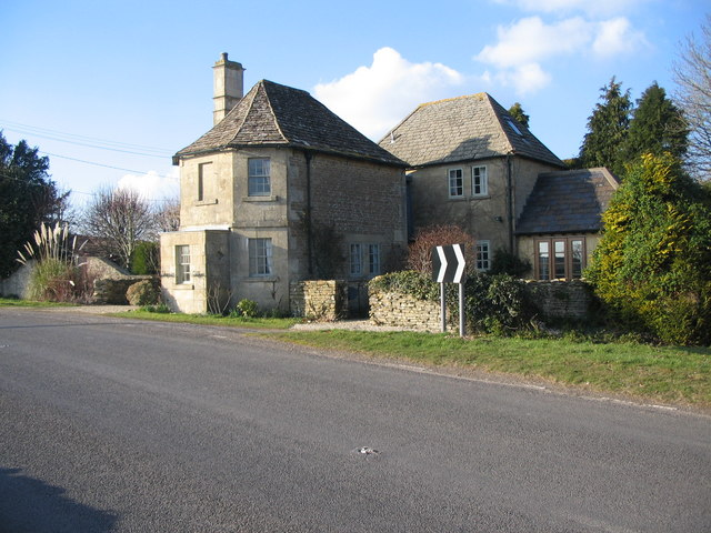 The Old Toll Cottage. A view looking north to The Old Toll Cottage at Blue Vein.